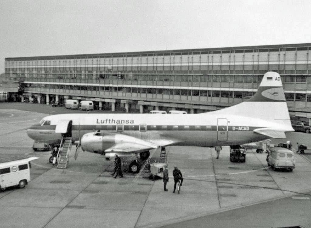 Convair 440 D-ACAD of Lufthansa at Copenhagen (Kastrup) Airport